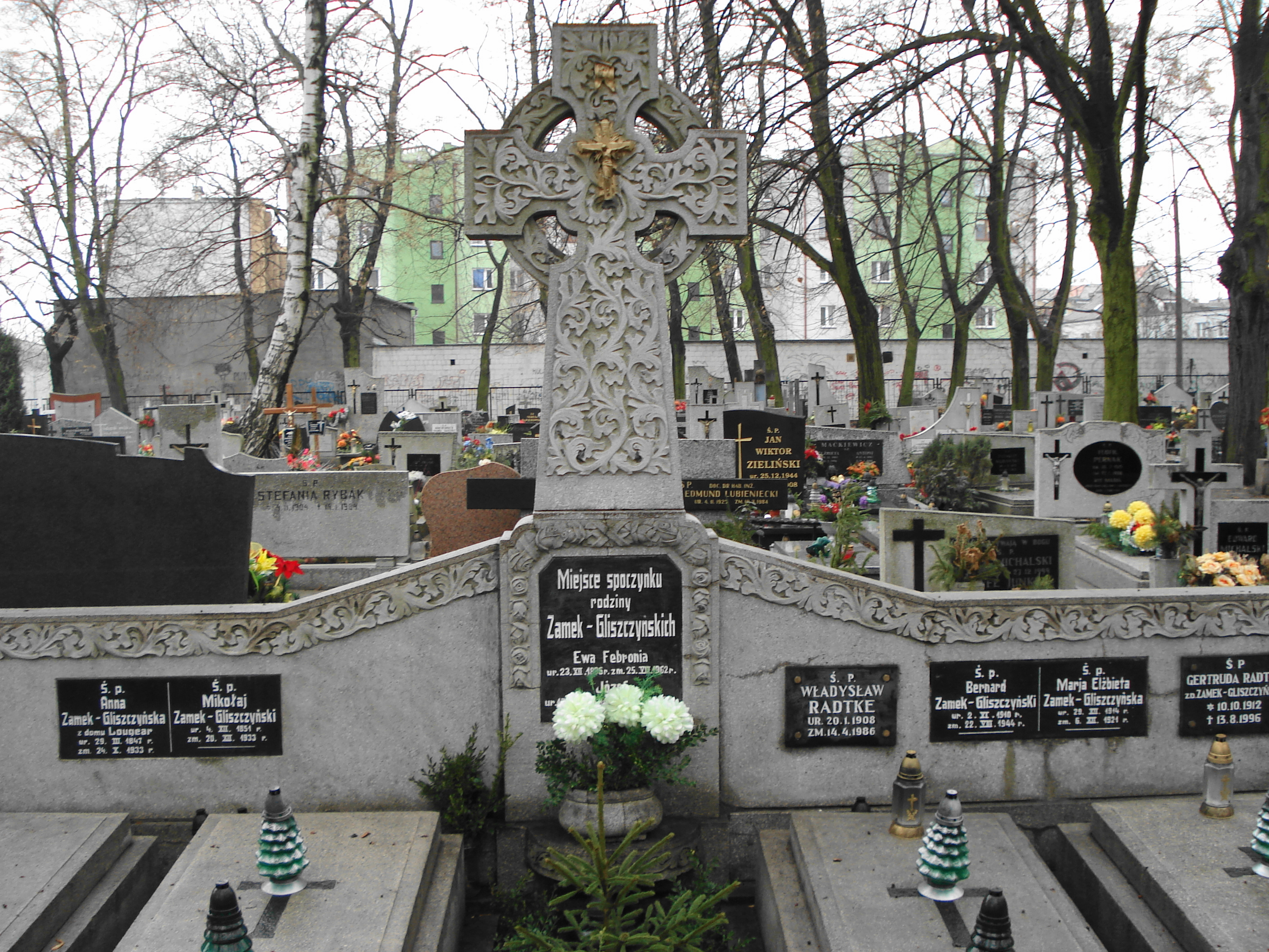 Wybickiego Street Cemetery in Toruń, gravestone Zamek-Gliszczyński, ca. 1922